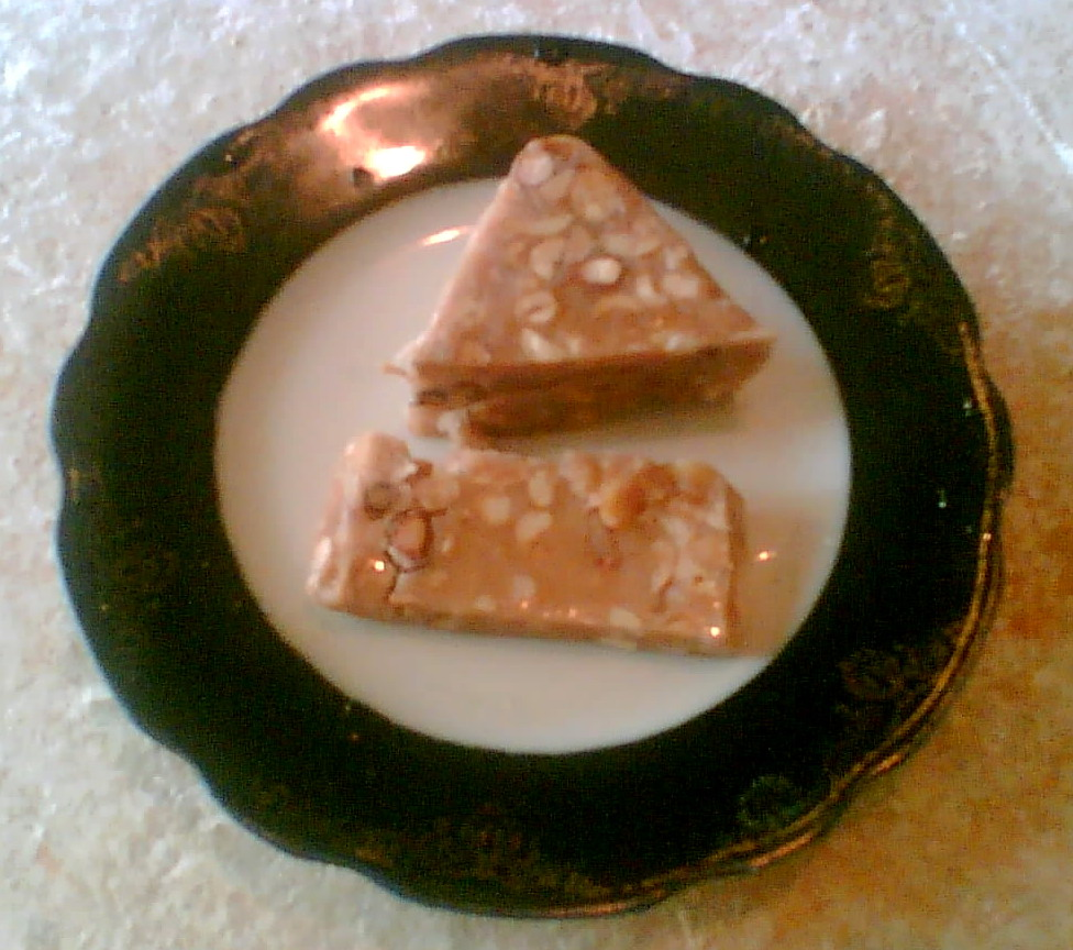 Central Asian Sherbet with peanuts (NB!: it is not a frozen dessert)see also Central Asian Sherbet with peanuts, raisins and dried apricots